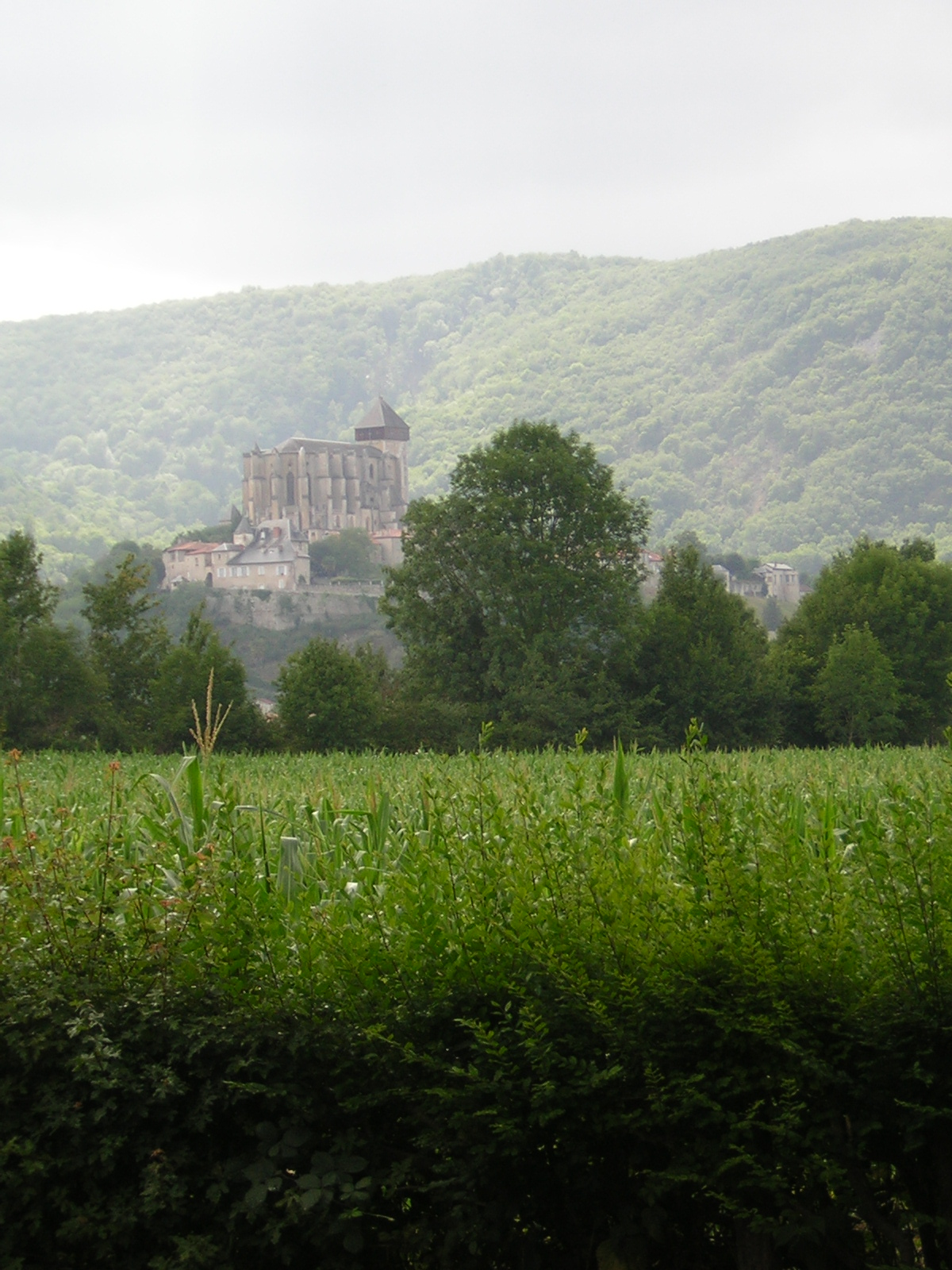 View of St-Bertrand-de-Comminges from St-Just-de-Valcabrère.